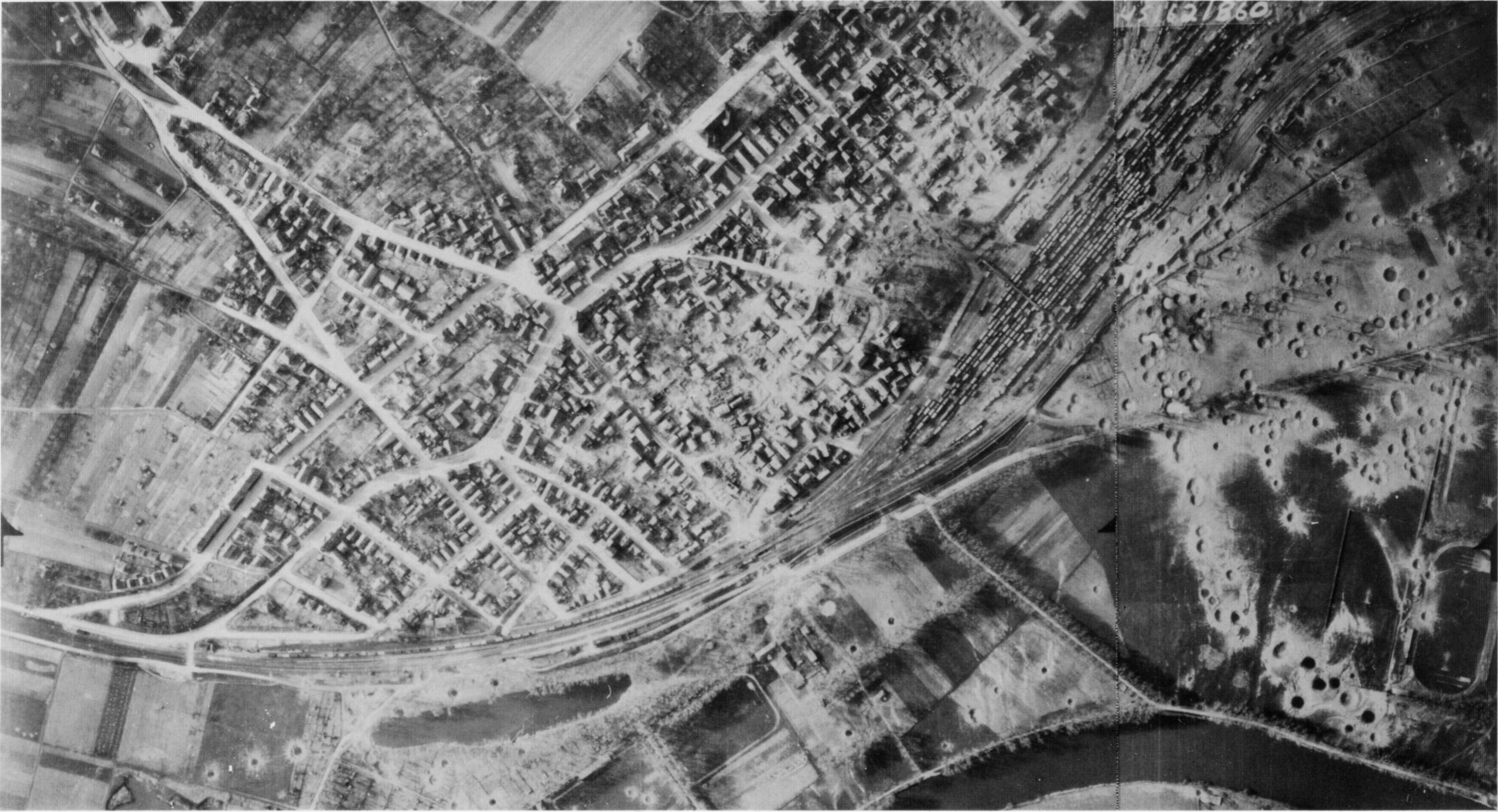 Aerial photo of the destroyed Heilbronn-Böckingen on March 31, 1945, taken from the Southeast